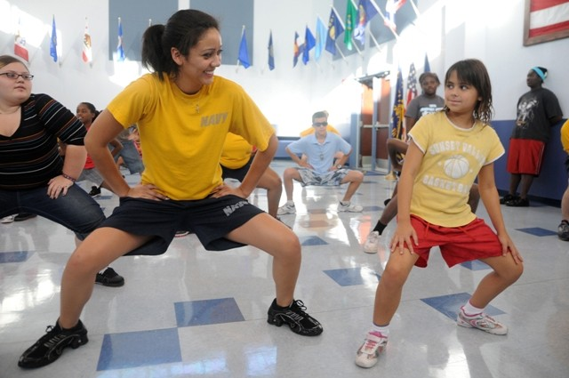 TAMPA, Fla. (Nov. 20, 2011) Equipment Operator Constructionman Apprentice Alexandra Acuna, assigned to Navy Mobile Construction Battalion (NMCB) 14, smiles at a girl from the Tampa area foster home, the Children's Home Inc., during physical training at Navy Operational Support Center (NOSC) Tampa at MacDill Air Force Base. NOSC Tampa hosted the children for a day of activities as a part of their community relations program. (U.S. Navy photo by Mass Communication Specialist 2nd Class Joe Smith/Released) 111120-N-GO855-014